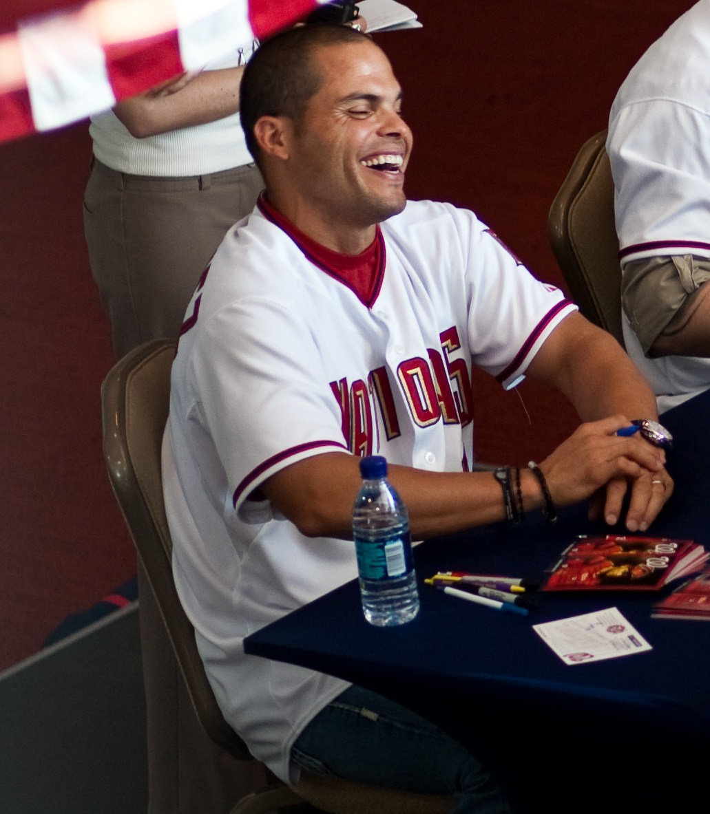 Ivan Rodriguez